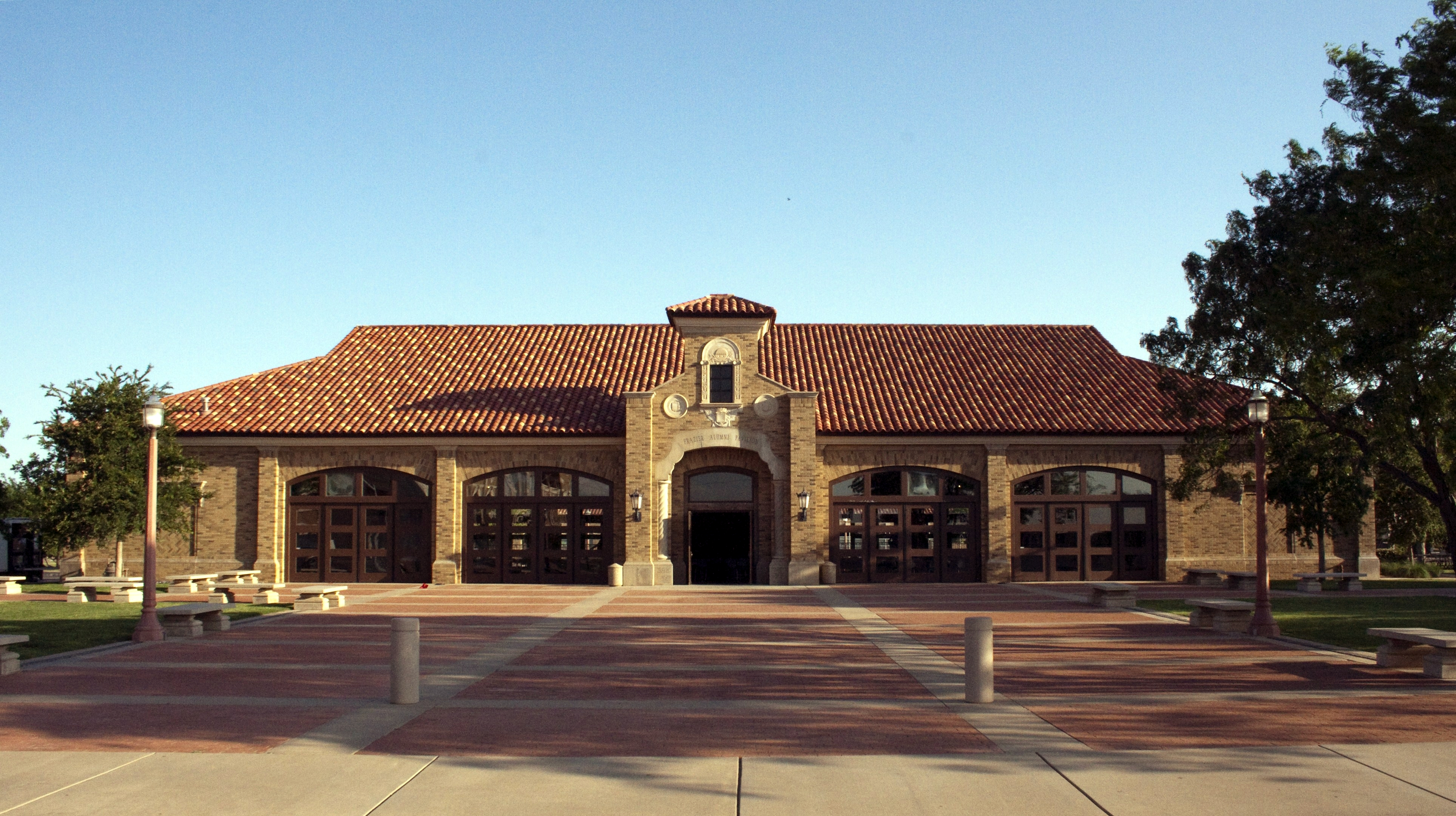 Wide shot of the Frazier Alumni Pavilion on the Texas Tech Campus in Lubbock, Texas.